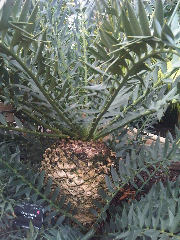 Eastern Cape Blue Cycad (Encephalartos horridus) in Kew Gardens, England.